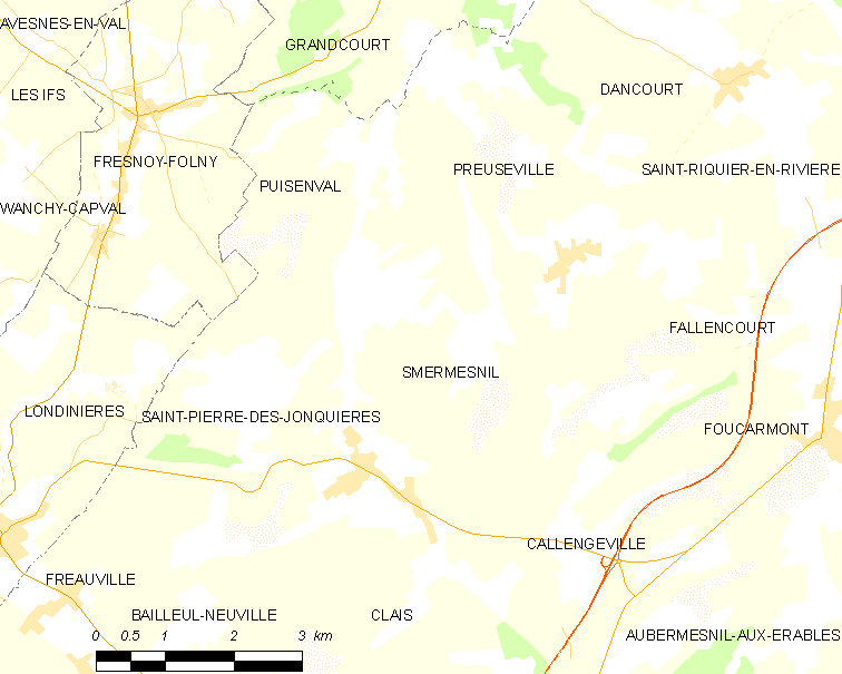 Map of French municipality Smermesnil